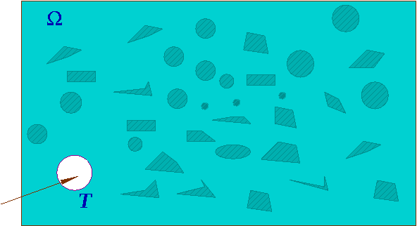 Illustration of Demsbski's justification for specified complexity